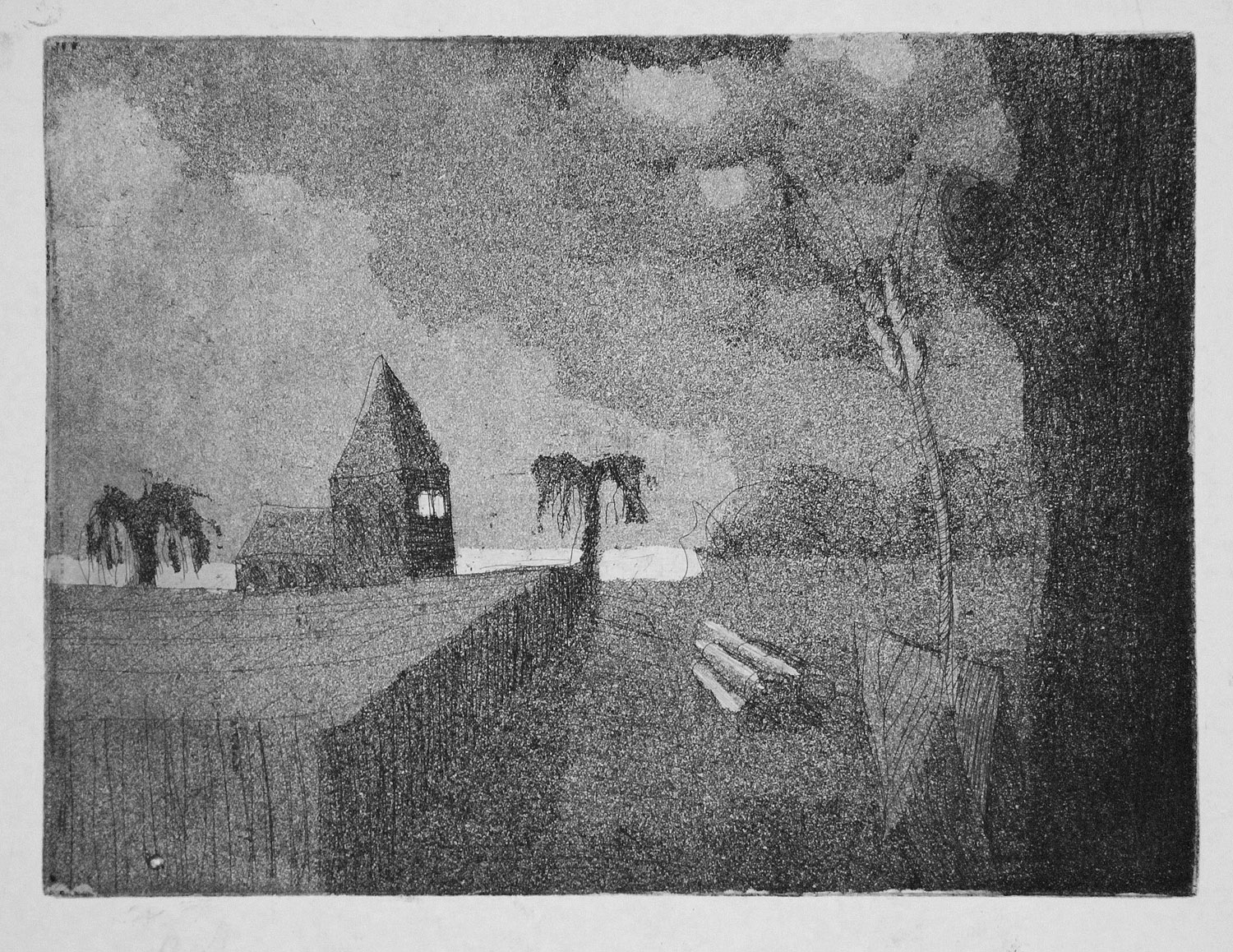 art, etching